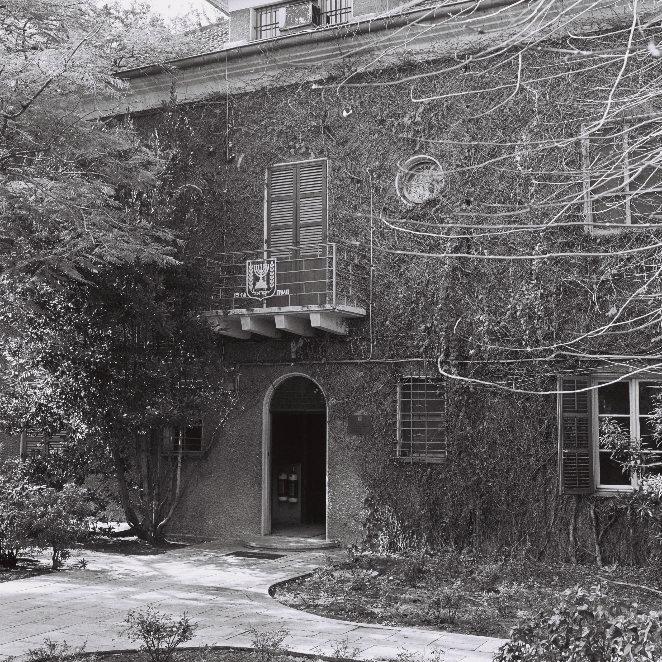 ENTRANCE TO PRIME MINISTER'S OFFICE AT HAKIRYA IN TEL AVIV, IN WHICH FIRST MEETINGS OF THE PROVISIONAL GOVERNMENT OF ISRAEL TOOK PLACE.